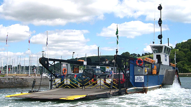 The old Dartmouth Higher Ferry. The Dartmouth Higher Ferry shown leaving Dartmouth is propelled by paddle wheels and crosses the River Dart to Kingswear. The old ferry could carry up to 18 cars and is unusual because its route across the river is controlled by wire cables. For more information see the Wikipedia article The old Dartmouth Higher Ferry.